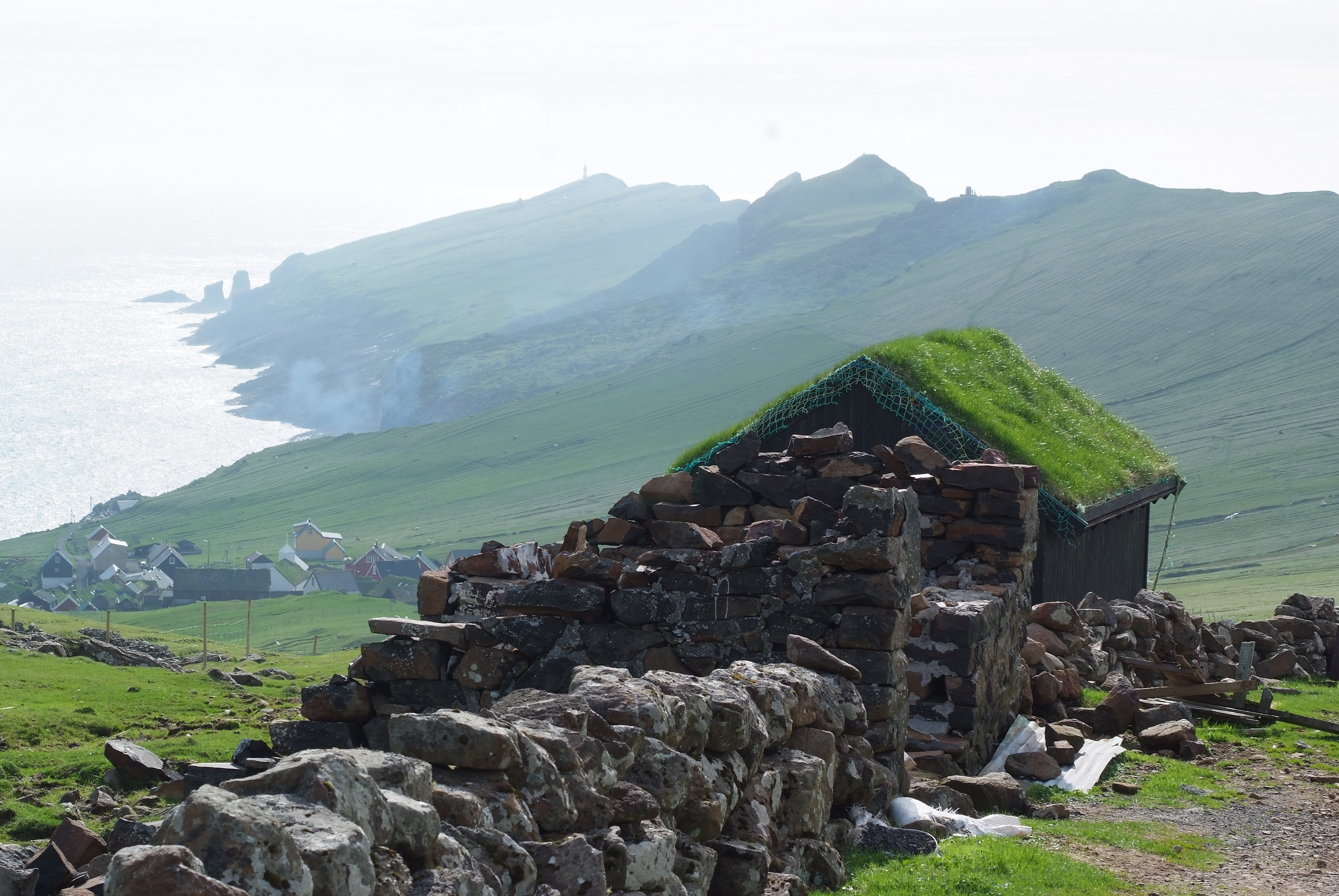 Way from Mykines village up to the fields. It was a very warm and calm afternoon in the North Atlantic.